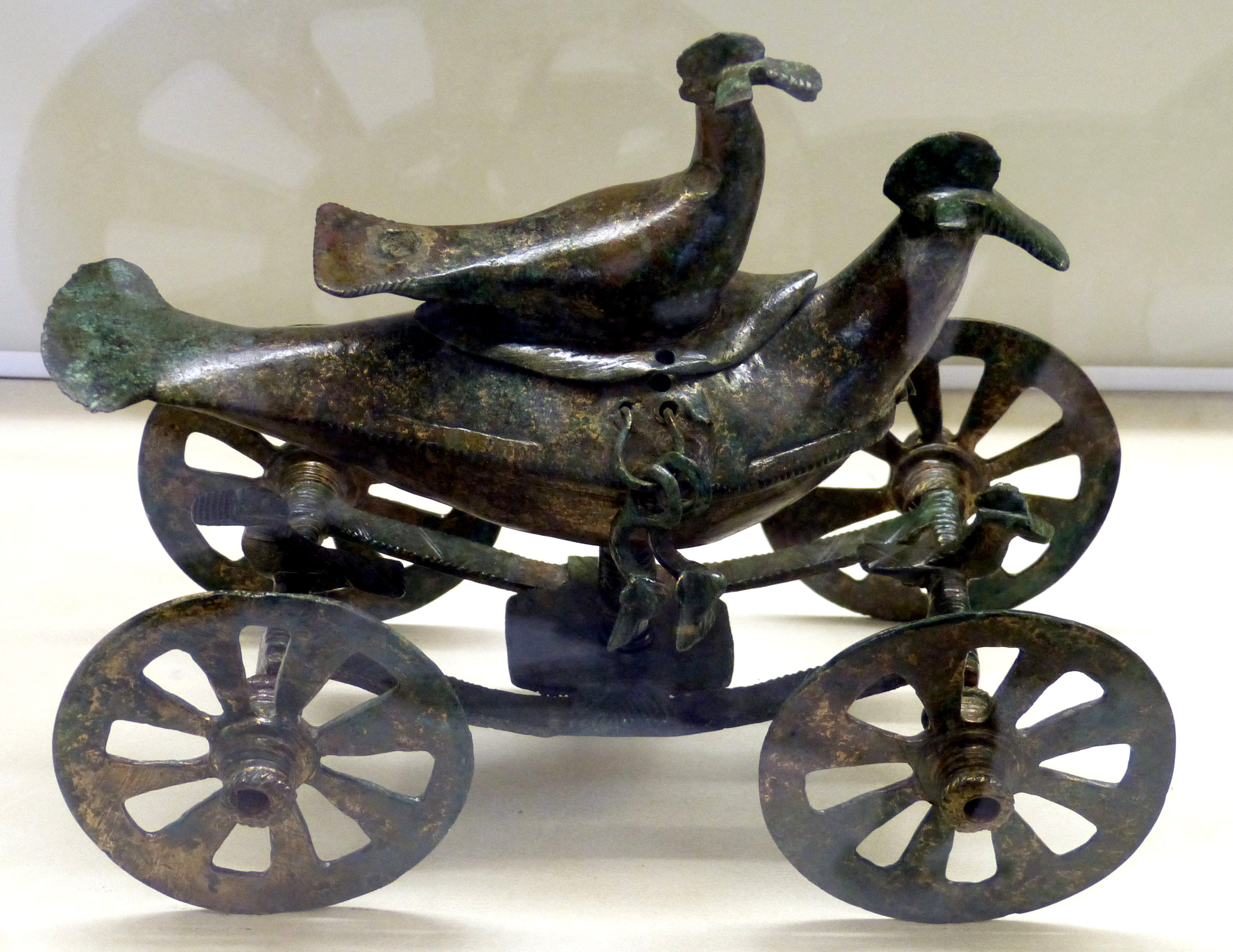 Natural History Museum, Vienna ( Austria ). Iron Age cult carriage with birds ( 8th-5th century BC ) from Bandin-Odzak ( Bosnia )